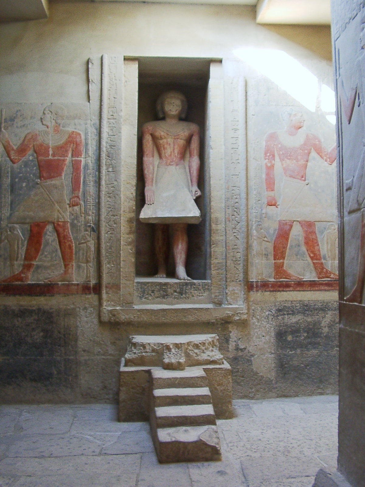 Mereruka vizier's funeral statue in front of his false door at his Saqqara tomb